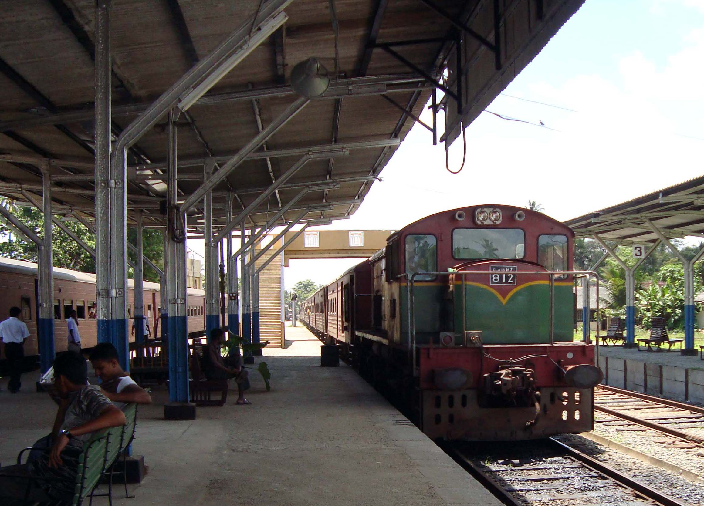 Brush DE- Class M7 Loco # 812 arriving in Matara